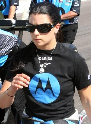 Danica Patrick on Pole Day at Indy, 2007. Photo by Tim Wohlford